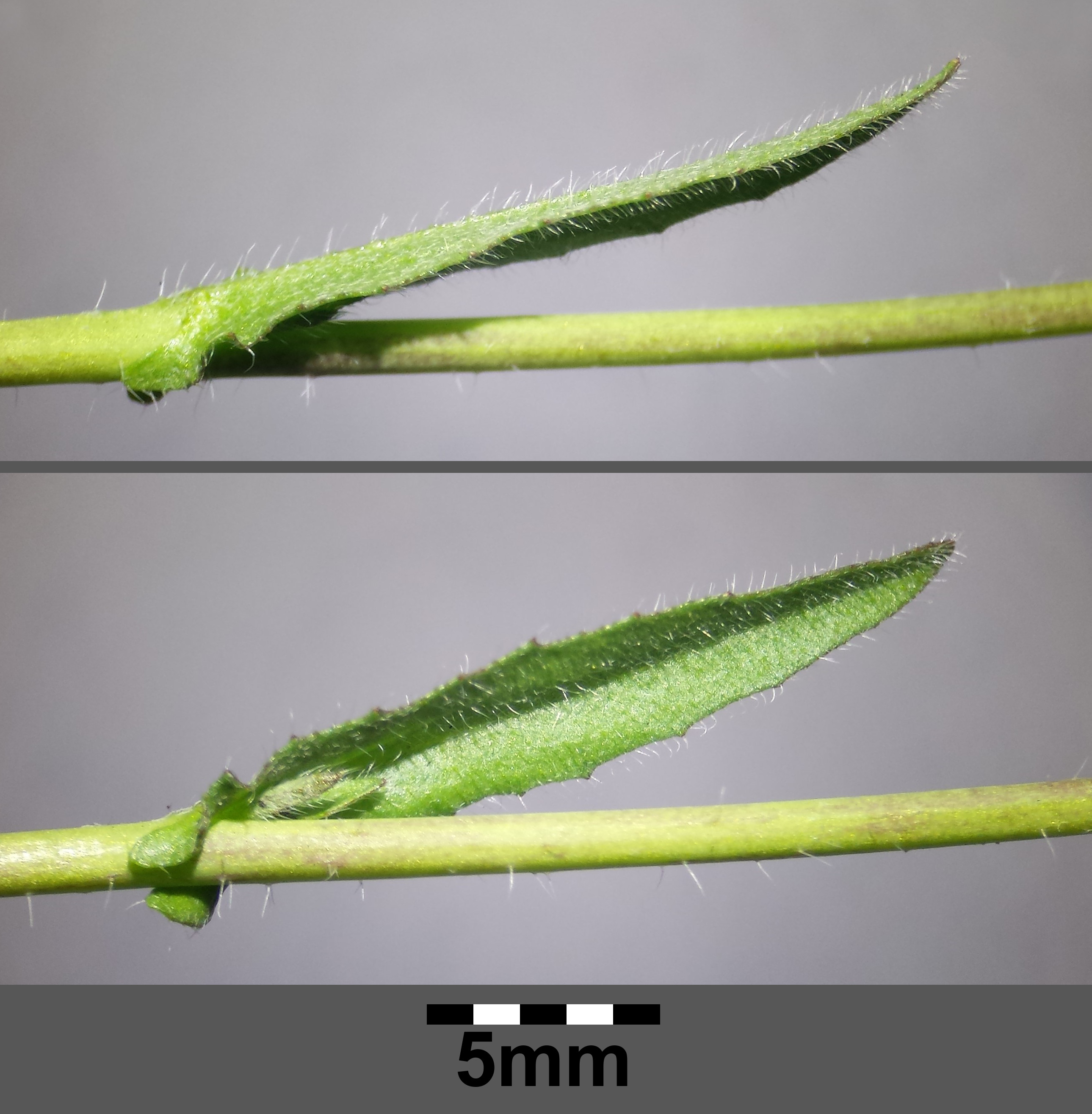 Leaf Taxonym: Capsella bursa-pastoris ss Fischer et al. EfÖLS 2008 ISBN 978-3-85474-187-9 Location: Sinawastingasse, Vienna-Floridsdorf - ca. 160 m a.s.l. Habitat: slope